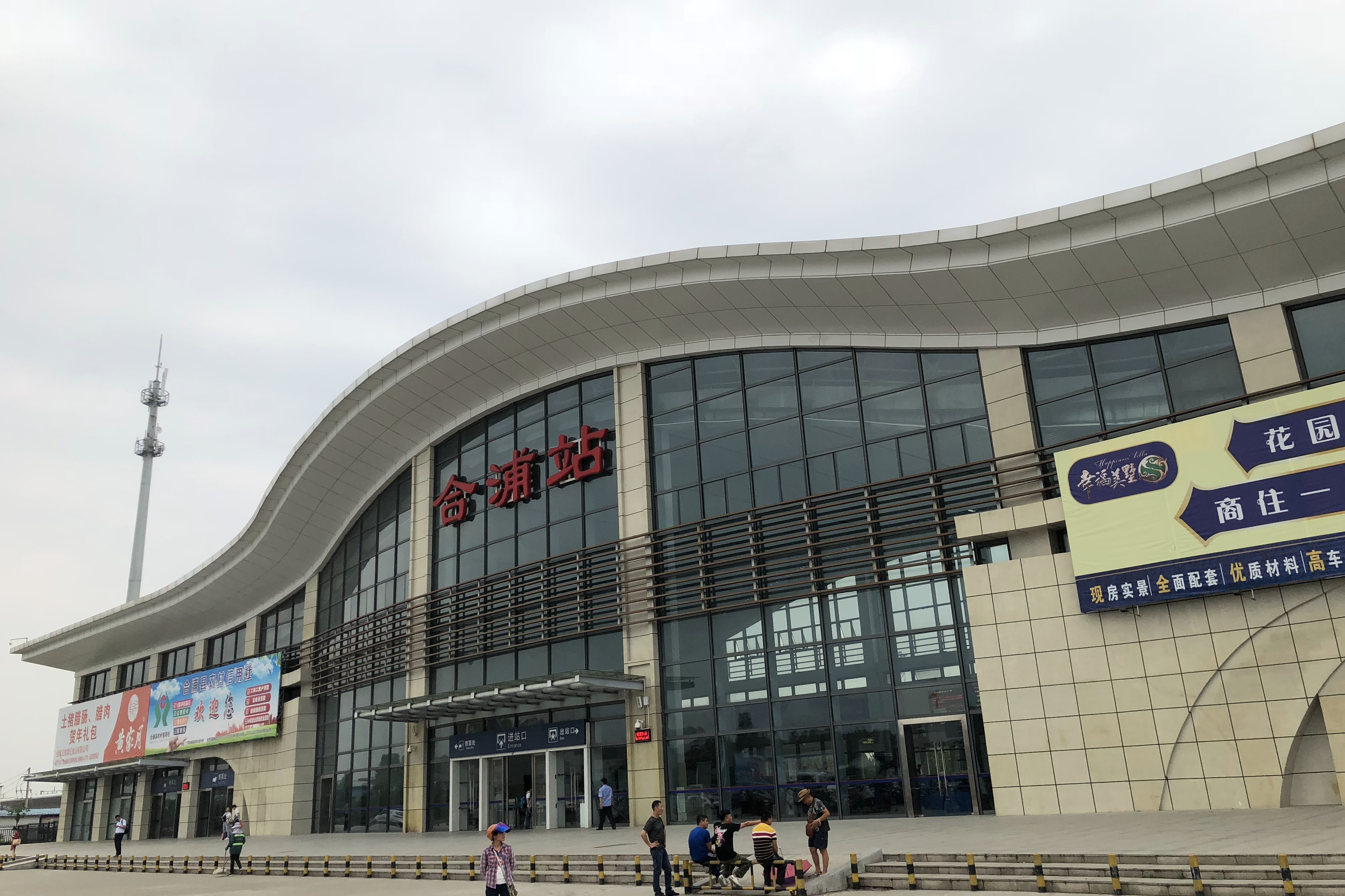 Hepu Railway Station